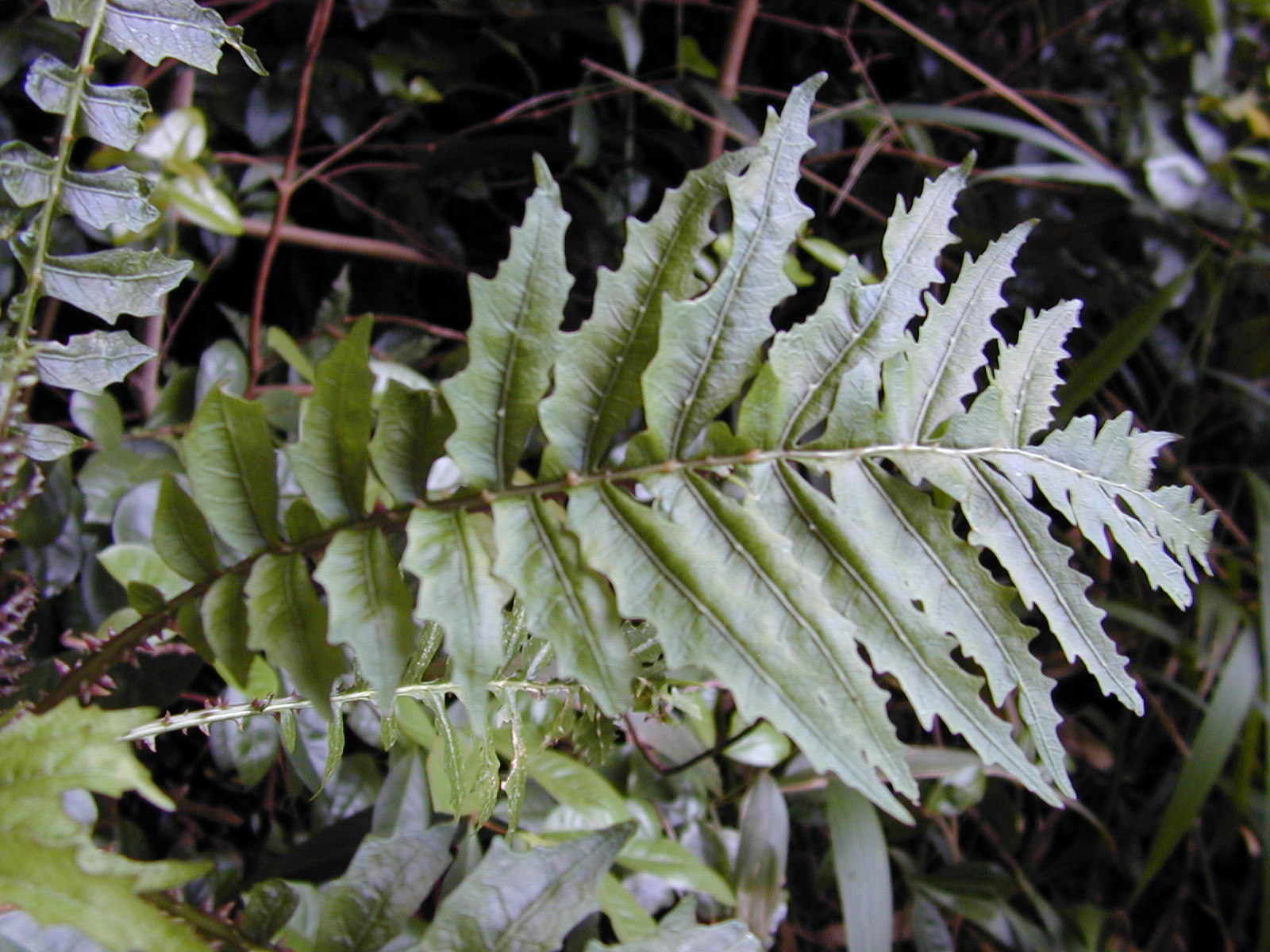 Cyanea asplenifolia (leaves). Location: Maui, Makawao Forest Reserve